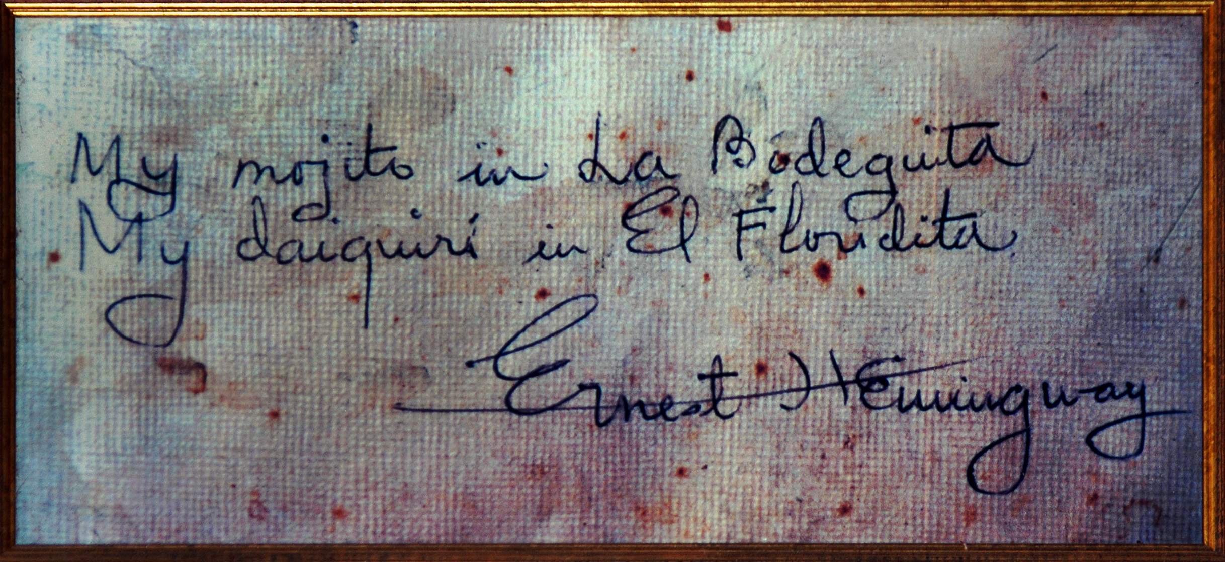 Cuba, Havana, La Bodeguita del Medio, Hemingway's preferred place for his mojito